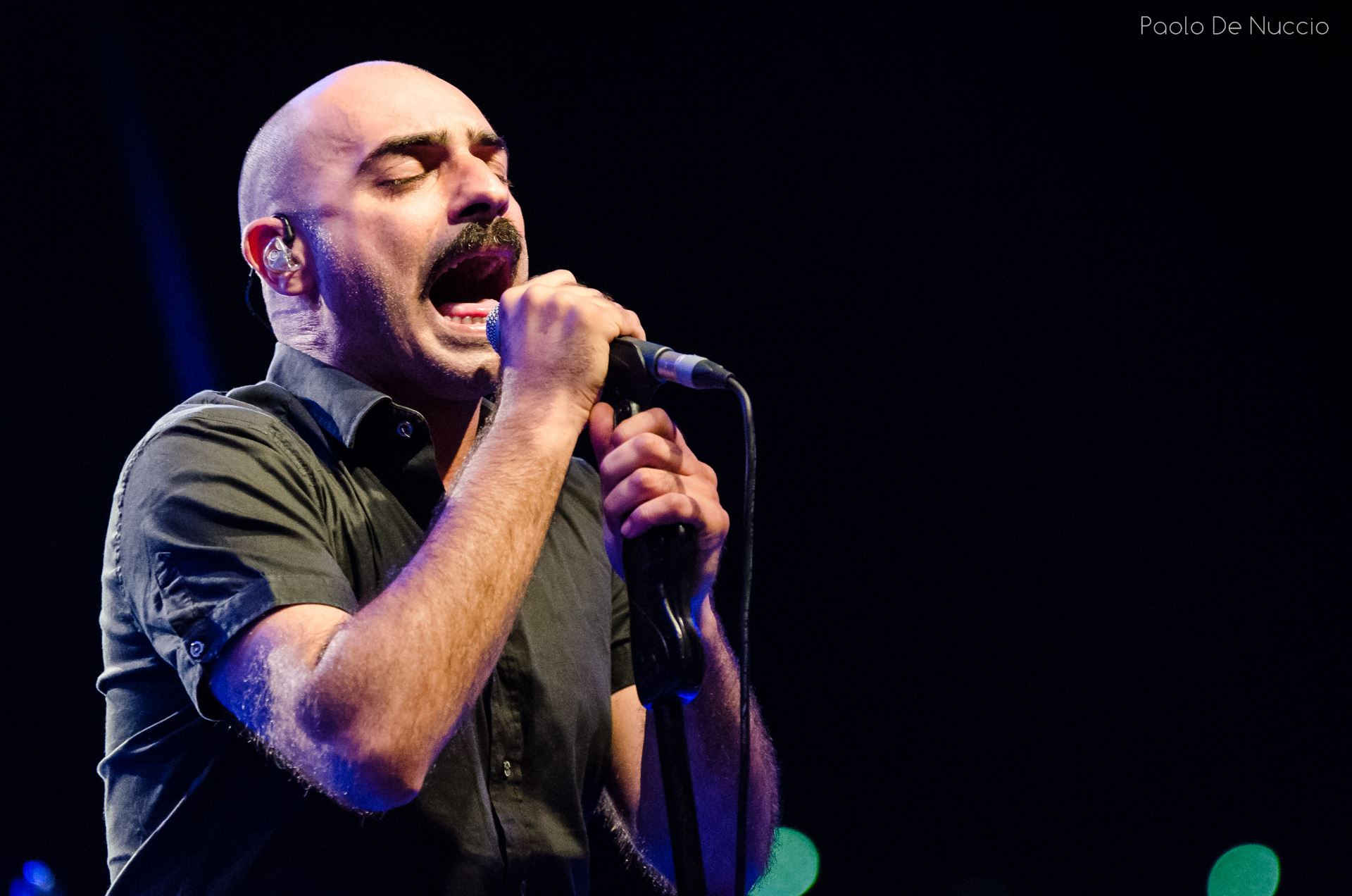 Singer and frontman of "Marta sui tubi"